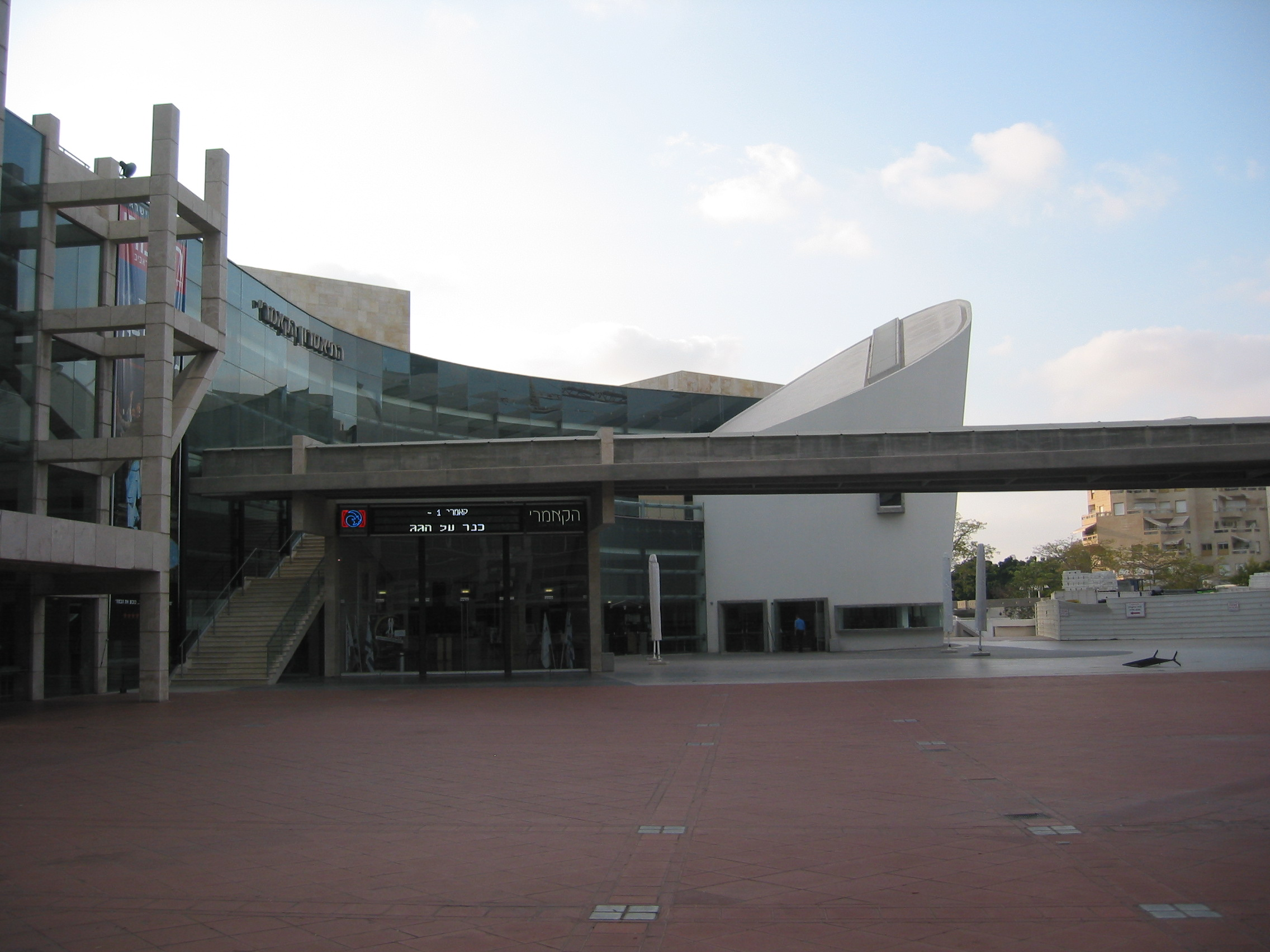 Performing Arts Center, Tel Aviv